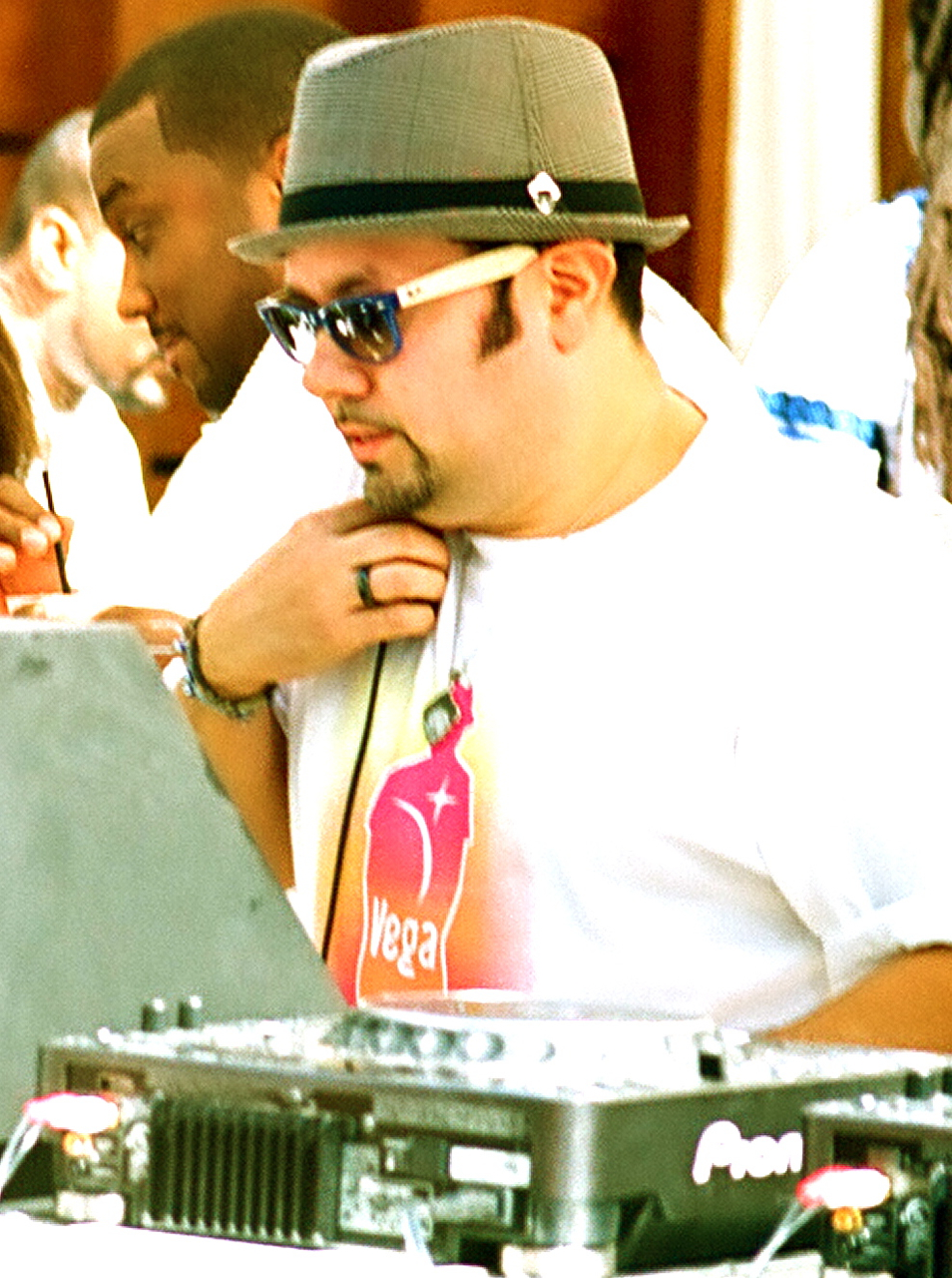 Little Louie Vega playing at the Fontainebleau Resort during the Winter Music Conference in Miami - 2009